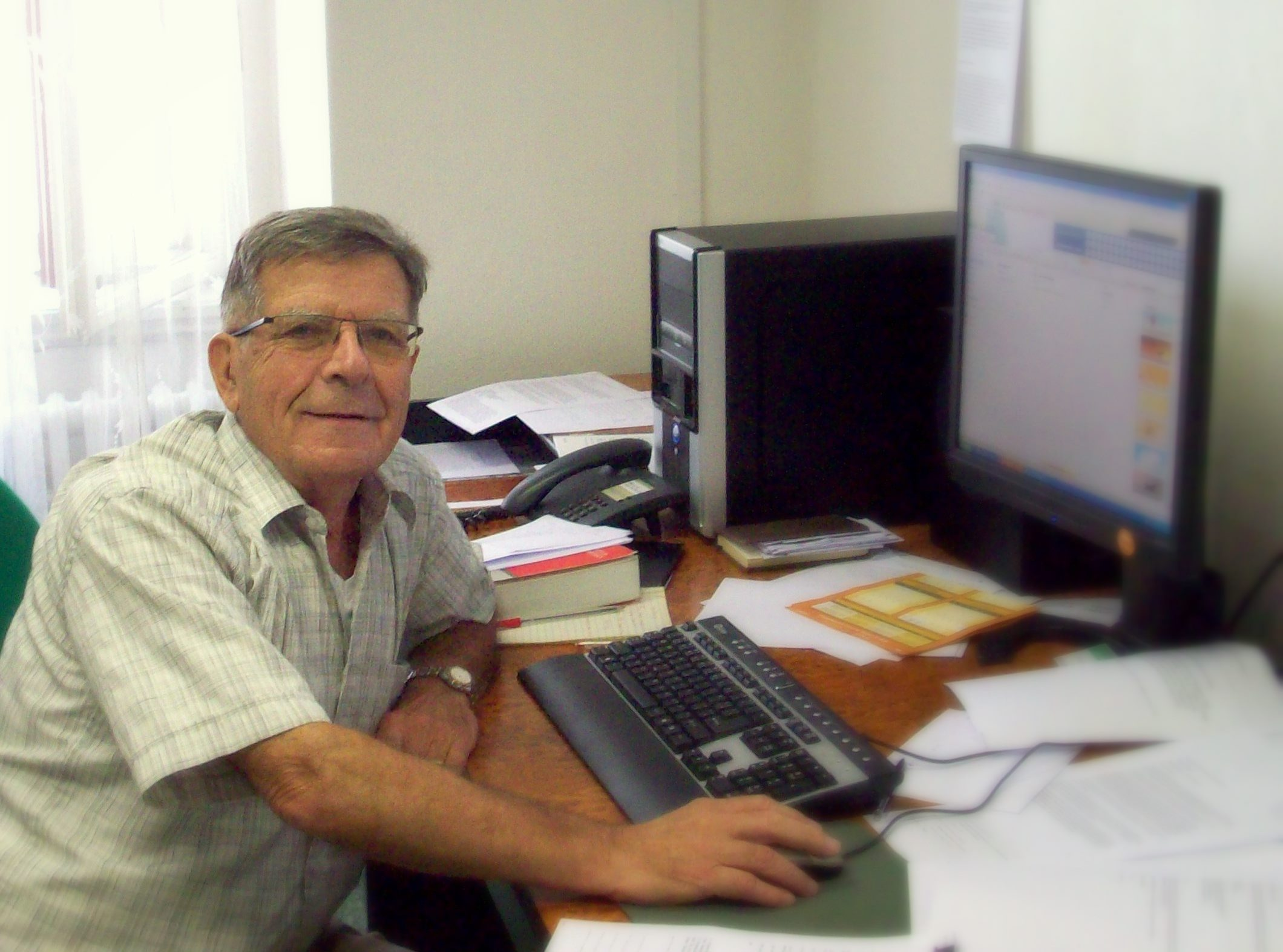 Picture of Professor Jan Kmenta (Economics, U of Michigan, CERGE-EI)